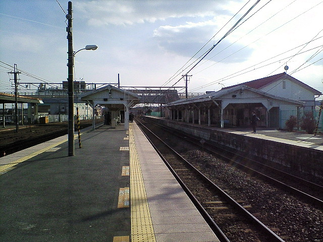 Yaita Station Platform of the Utsunomiya Line, Yaita, Tochigi, Japan